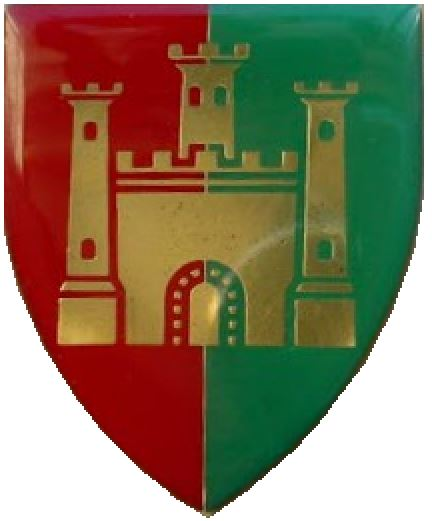 SADF Cape Garrision Artillery Regiment emblem